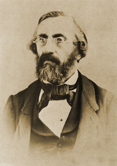 Otto Möllinger, German-Swiss scientist, secondary school teacher, inventor, and businessman.